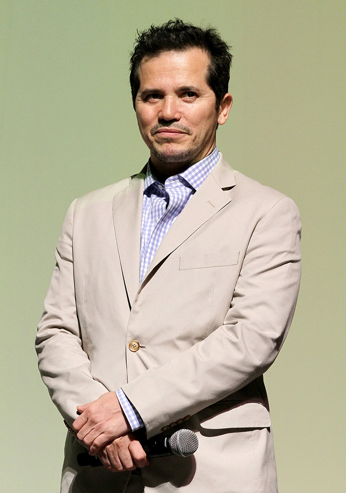 John Leguizamo at the 2014 Miami International Film Festival presentation of the film Open Windows Photo by: Alberto Tamargo